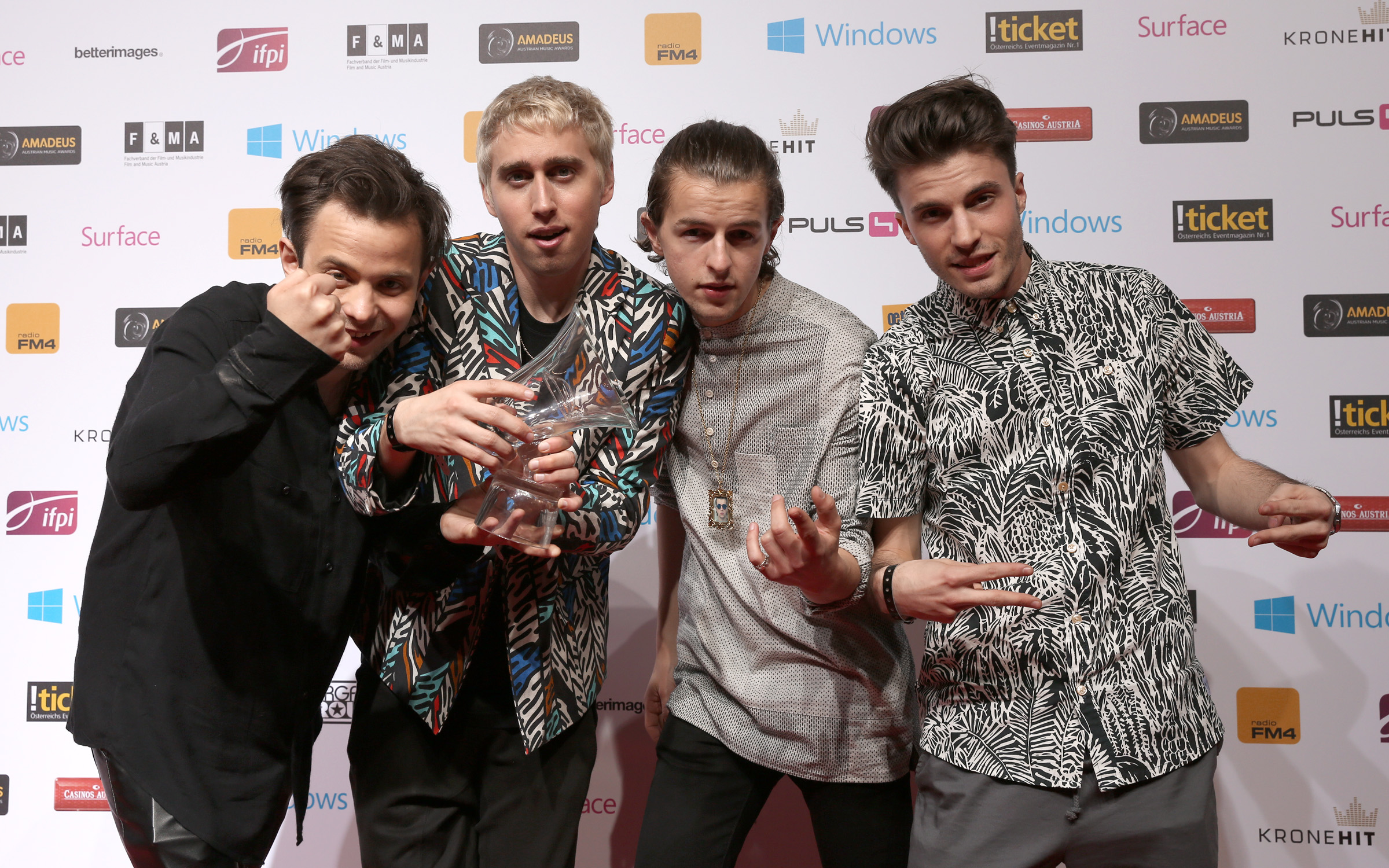 Bilderbuch at the Amadeus Austrian Music Award 2014 at Volkstheater in Vienna